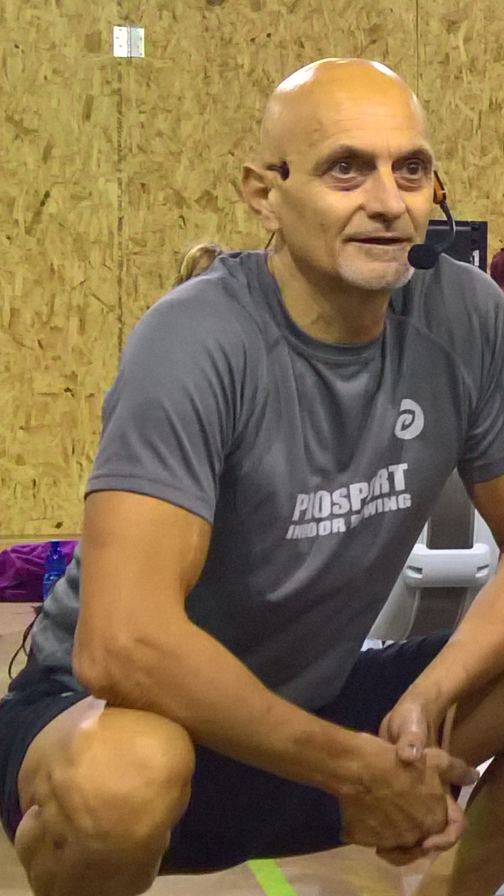 Emanuele Romoli, Italian indoor rowing sportsmen, during a training session